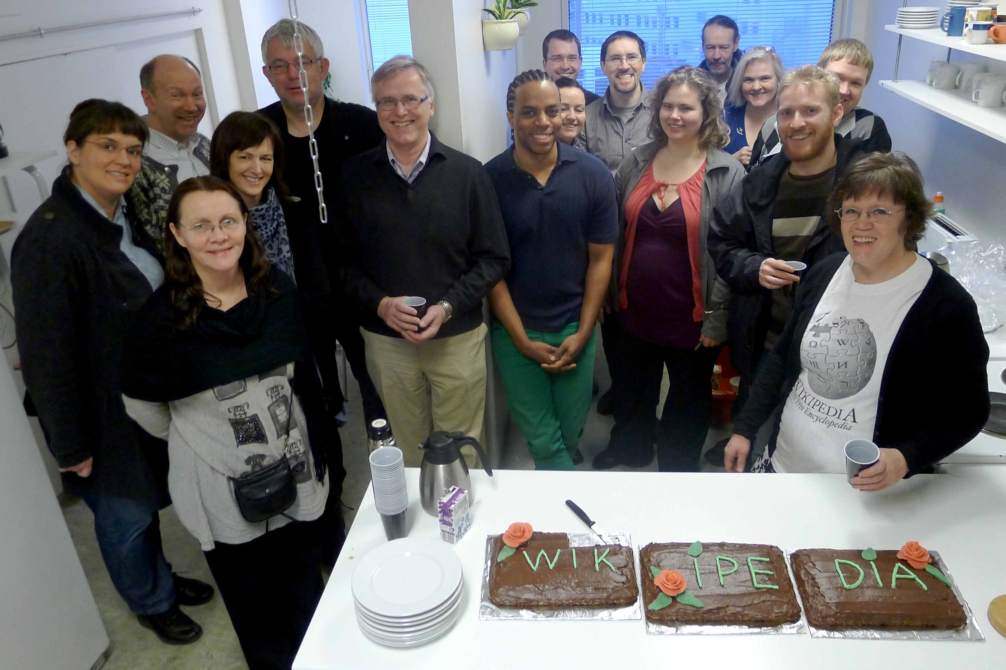 Celebration of the 10 years old birthday of the Icelandic Wikipedia